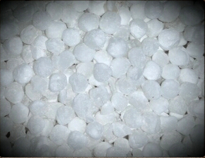 Picture of Indian Sabudana (Sago) Taken on 28th December 2014 in Salem